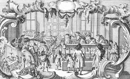 "Observance of Purim in a German Synagogue of the Eighteenth Century", from Bodenschatz, Kirchliche Verfassung